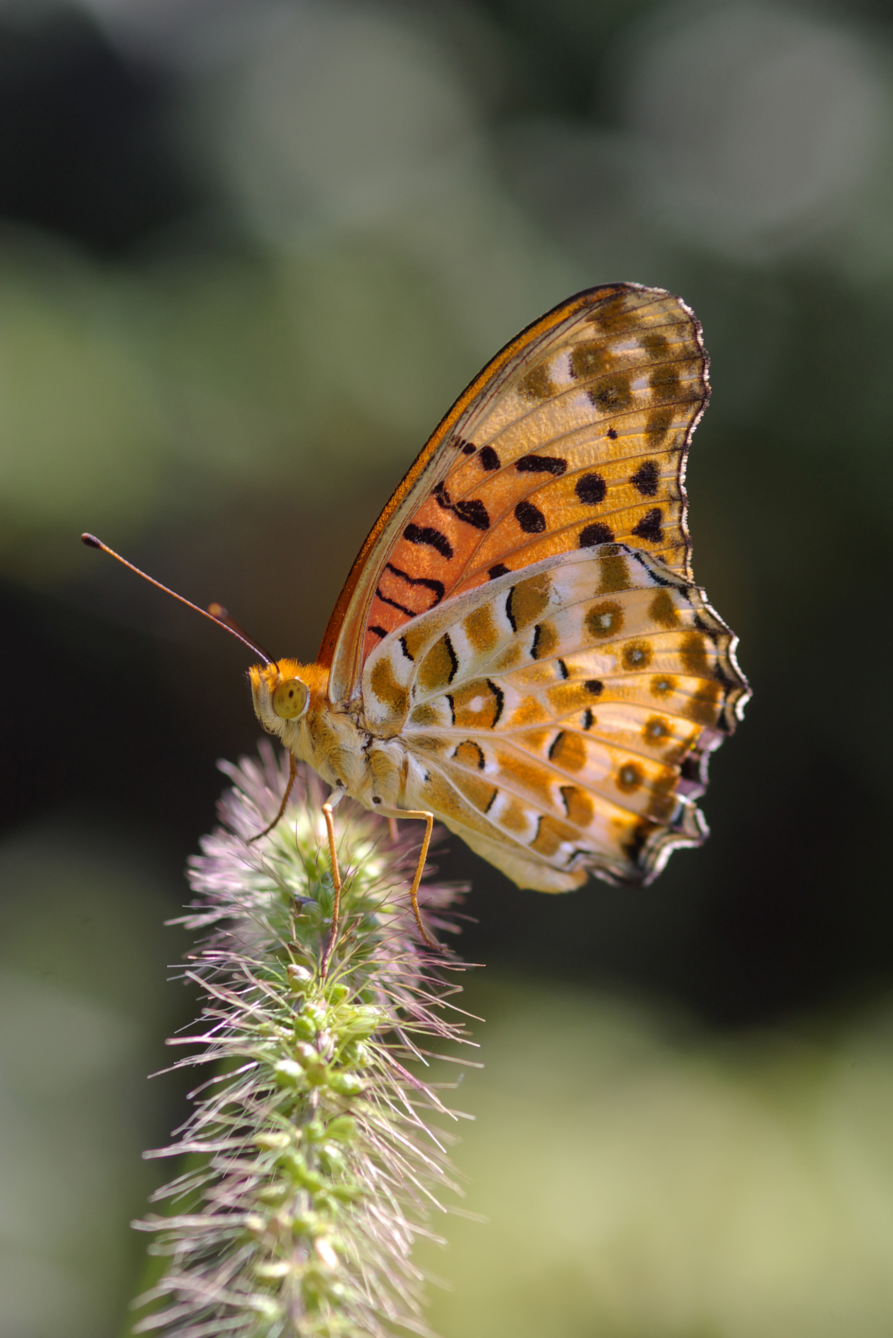 Argynnis hyperbius (Indian Fritillary). Location: Saitama, Japan